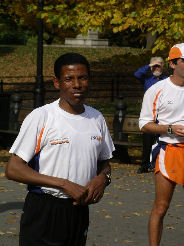 On the weekend of the 2003 New York City Marathon, I bumped into Haile Gebrselassie speaking to a crowd of runners in orange while walking through Central Park. Haile mentioned, in announcing that he's running a half-marathon in New York this August, that he'd been to NYC before, but not to race.